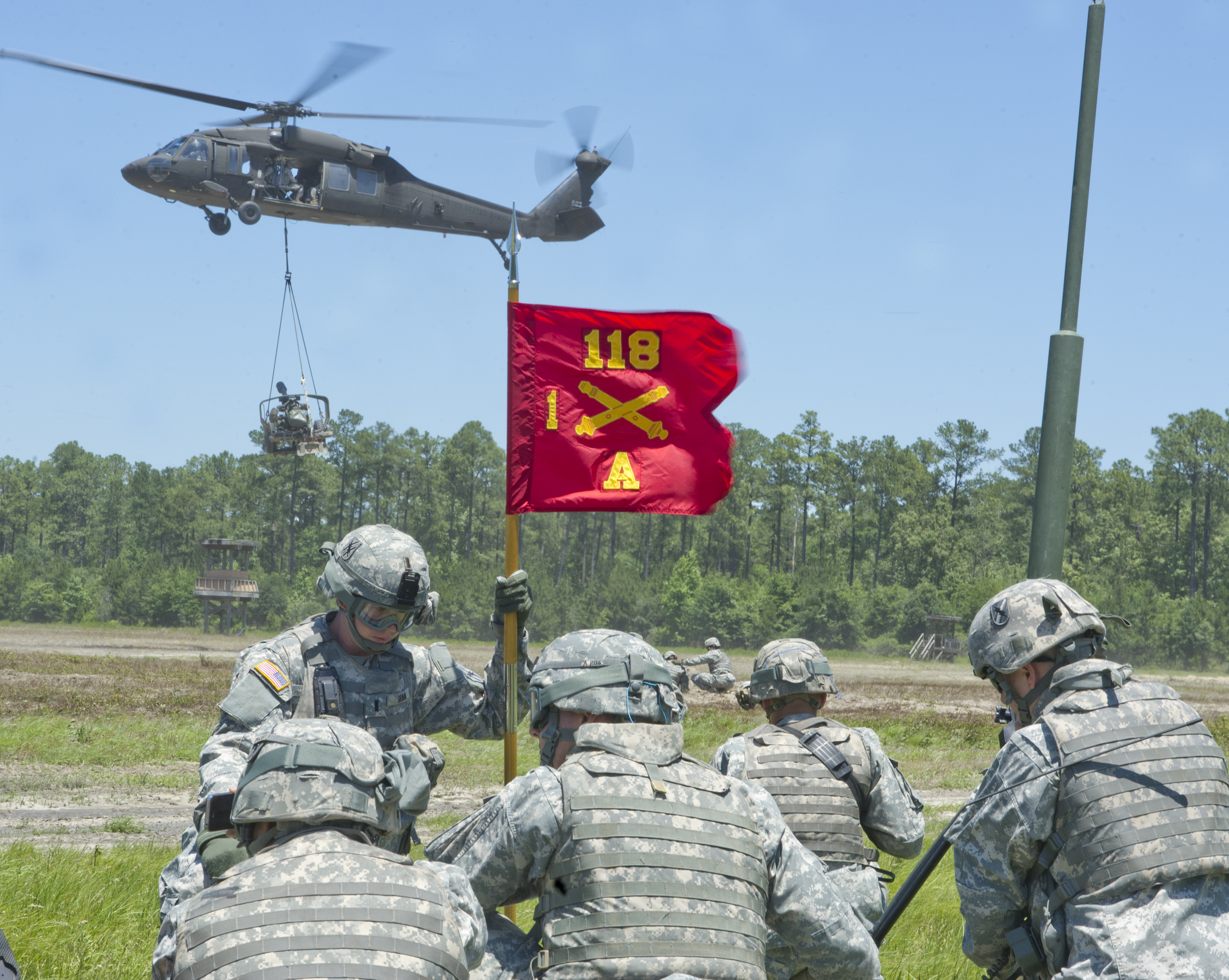 History is booming for the Georgia Army National Guard, literally! The Savannah-based "Hickory’s Howitzers" 1st Battalion, 118th Field Artillery Regiment and the 1st Battalion, 185th Aviation Regiment teamed to conduct the first air mobile raid in Georgia Guard history at Fort Stewart. With the "Way Forward" being a ready, expedient and mobile force element, the "drop and pop" maneuvers were an integral part of the 118th Field Artillery’s annual training. Joining with aviation elements made the training experience a little less mundane. “It’s very exciting training,” Spc. Joshua Holz, a Savannah-Chatham Metro Police officer when he’s not hauling 14-pound rounds to the pit, has embraced the new experience. “It’s also about making history, cross training with other units and the helicopter ride!” As a lightweight, air-droppable, towed howitzer, the M119A1 gun crews were able to set up hasty "powder pits," dig in deep and fire-at-will. Once the big guns are dropped, the "gun bunnies," the affectionate name given the Soldiers who make up the crew, fire off their six and pack it up for the ride out. Happening within minutes, the team-driven process flows with well-oiled precision. “A great deal of responsibility falls on the shoulders of our youngest Soldiers,” Sgt. 1st Class Celidus Martin, B Battery gun crew chief said. “Communication is key out here and as we talk to each other we become better communicators with our warriors on the battlefield.” The concept of war may not have changed but innovation has given way to an all-forces expeditionary battle approach that will improve mission effectiveness and continue to save lives. (Georgia Army National Guard photo by Staff Sgt. Tracy J. Smith)